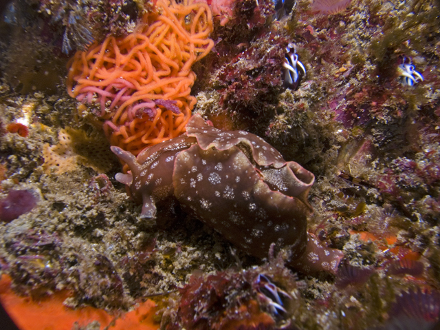 Found at Pyramid Rock in False Bay, Cape Peninsula in 10m of water. Length 5cm